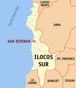 Map of Ilocos Sur showing the location of San Esteban